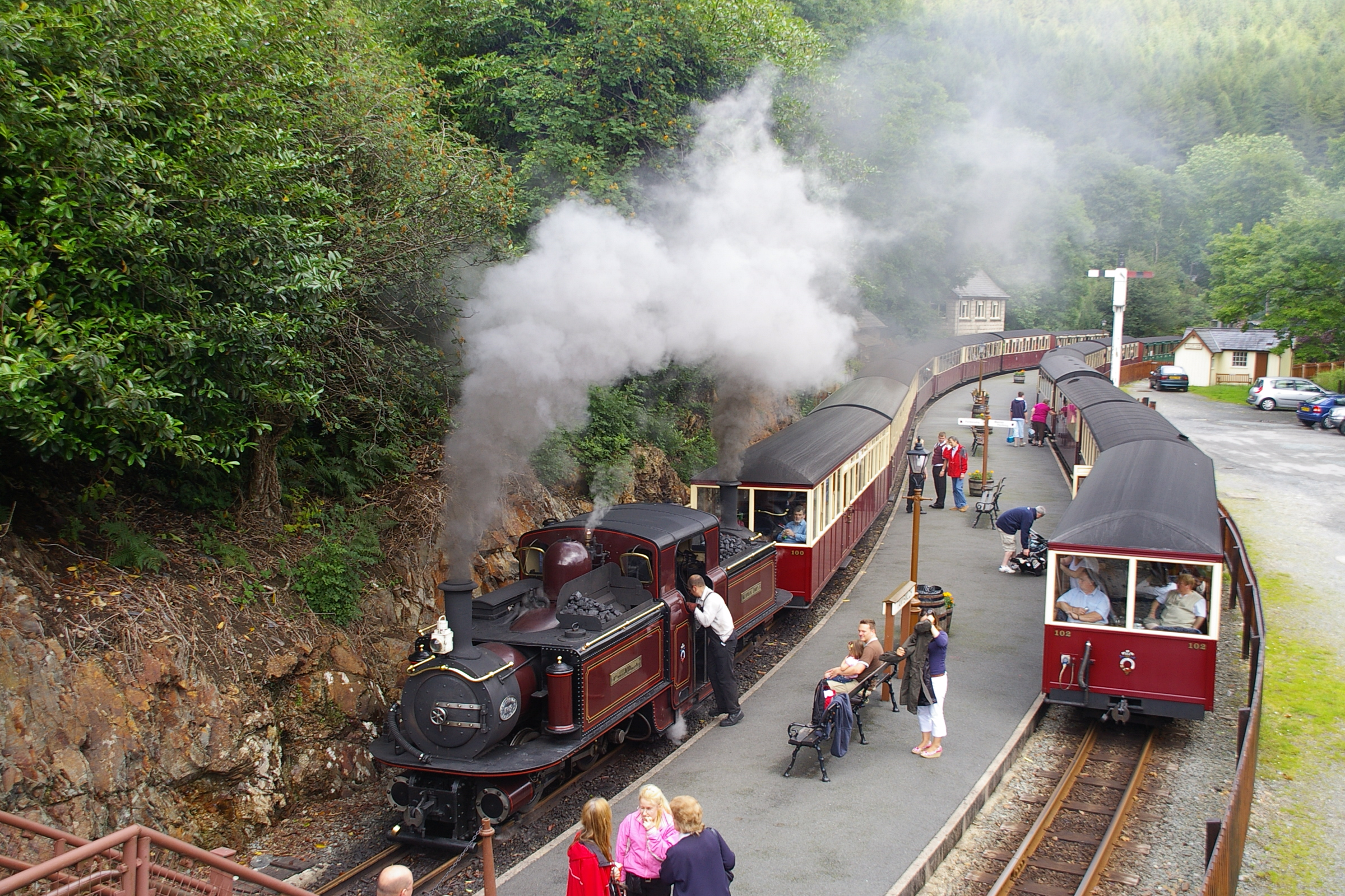 The station Tan-y-bwlch on the Ffestioniog Railway.